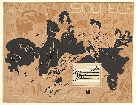 Painting by Pierre Bonnard